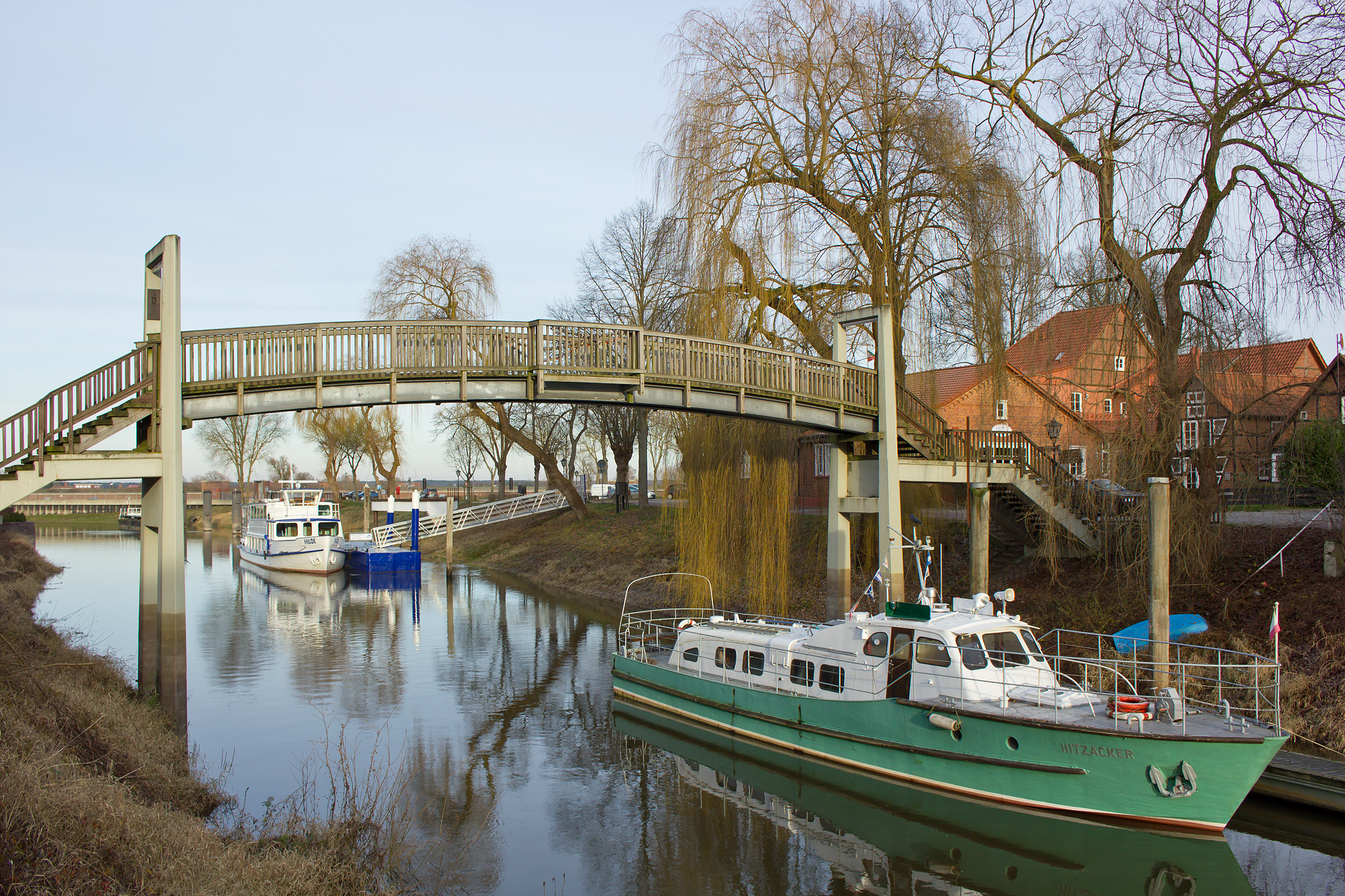 River Jeetzel with little harbor in Hitzacker (Elbe) (district Lüchow-Dannenberg, northern Germany).